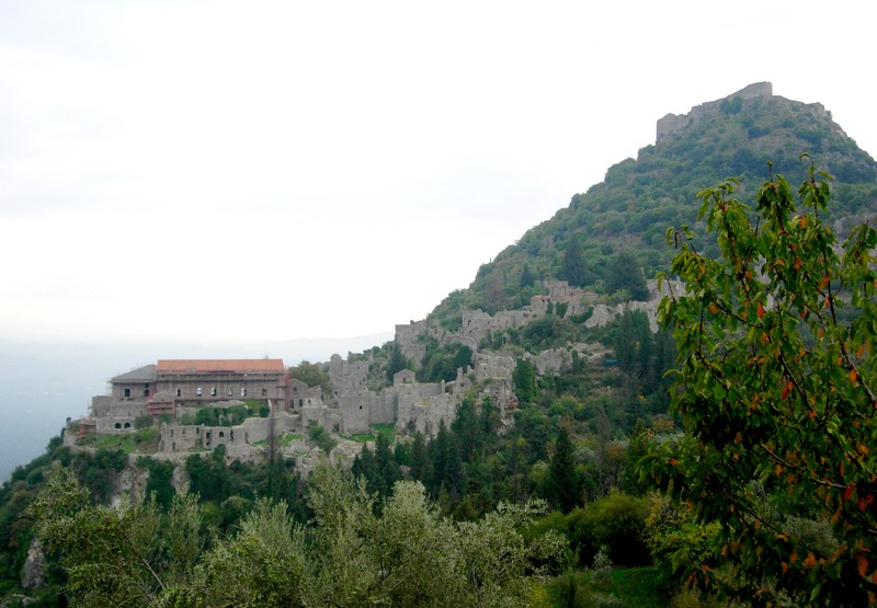 Mystras, Greece: middle city and high city (castle)